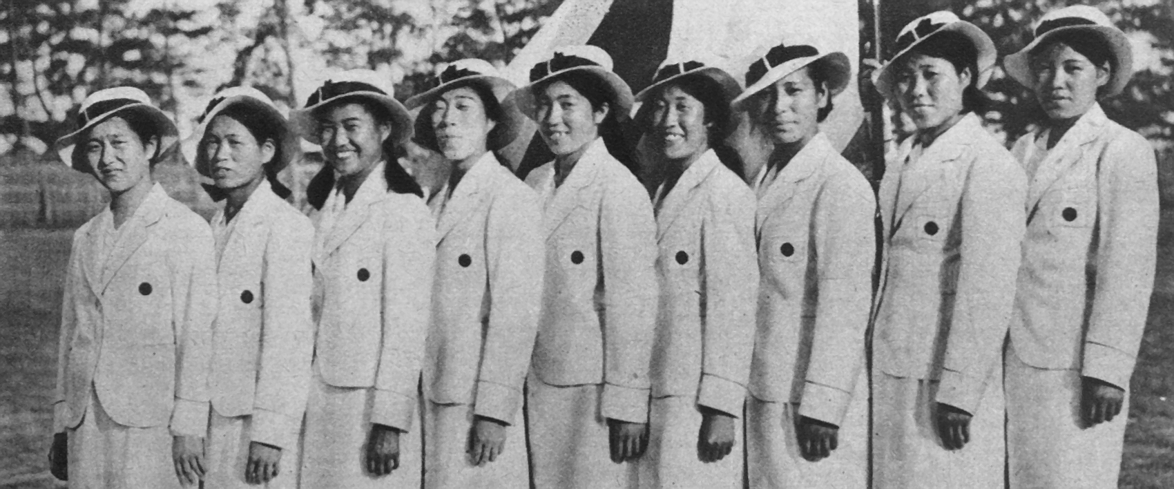 Japanese Team at the 4th Women's World Games held Aug. 1934 in the White City Stadium (London). Left to right: Inui Fumiko (relay), Idota Kiyoko (800 m), Hirashima Kiroko, Kuzuo Kohide (relay), Nakamura Katsuko, Watanabe Sumiko (relay; broad jump), Yamamoto Sadako (javelin), Shimpo Masako (javelin), Makino Yukiko (relay).